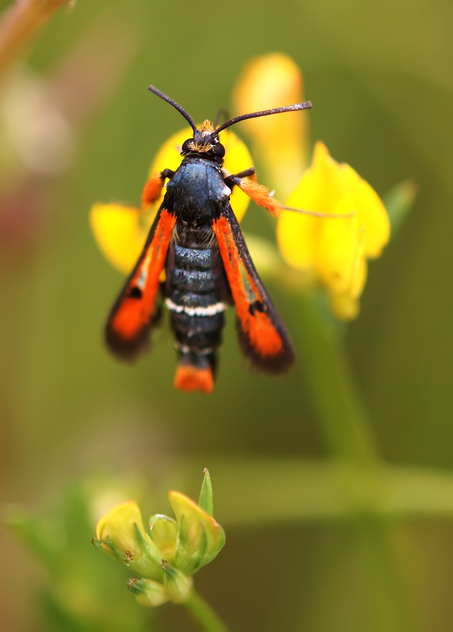 The Fiery Clearwing (Pyropteron chrysidiforme) is a moth of the Sesiidae family. It is found in the Europe, more specifically in Spain, Portugal, Majorca, Soutern England, Belgium, France, Corsica, Sardinia, Italy and Southern Germany. The wingspan is 15-23 mm. The moth flies from June to July depending on the location. The larvae feed on Rumex species.